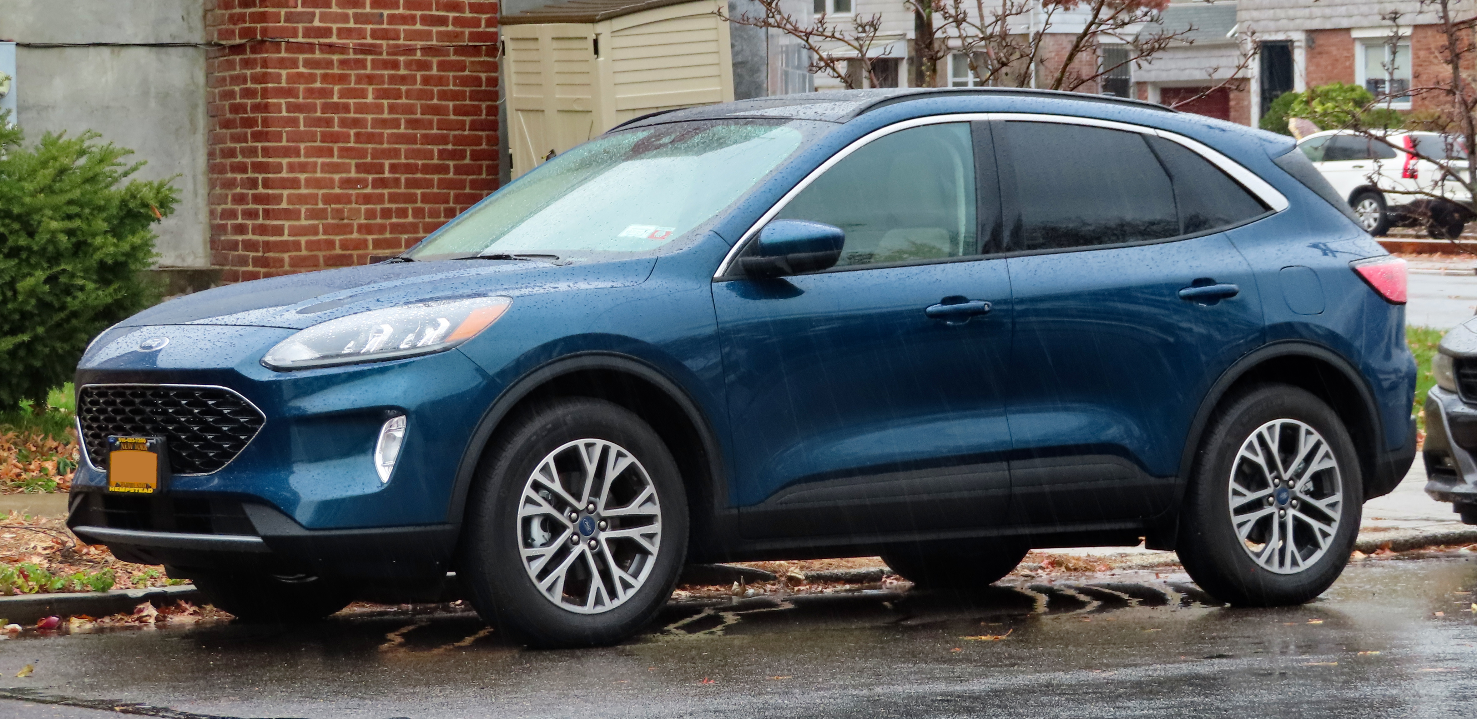 A 2020 Ford Escape SEL EcoBoost photographed in Fresh Meadows, Queens, New York, USA